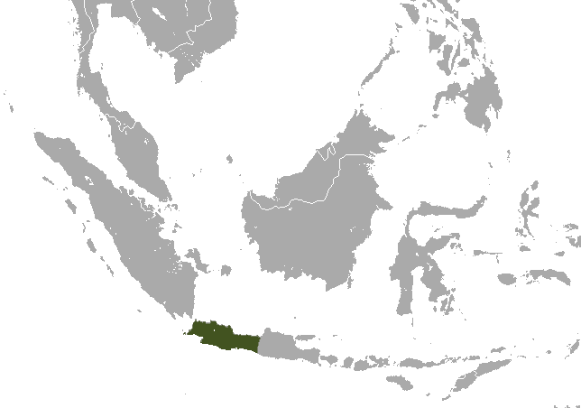 Distribution map of Javan Slow Loris (Nycticebus javanicus) range — on Java in Indonesia.